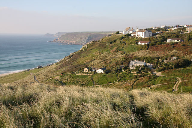 Carn Towan Looking across the valley from Mayon Green.